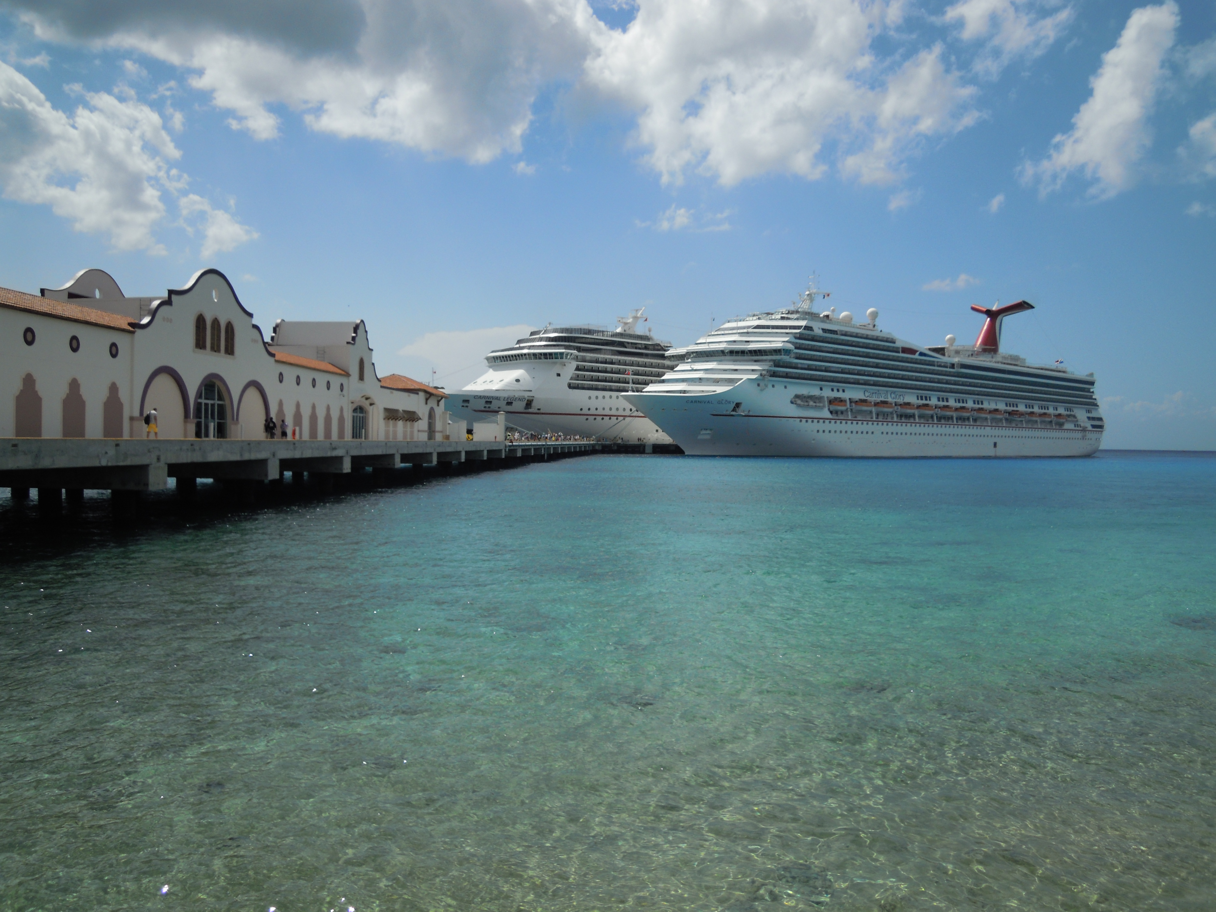 Puerta Maya pier, Cozumel, Mexico